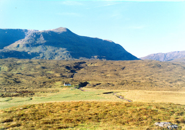 Valley of River Ling Looking across flood plain to Maol-bhuidhe bothy. Aonach Buidhe in the background. (The river is hidden by the foreground.)